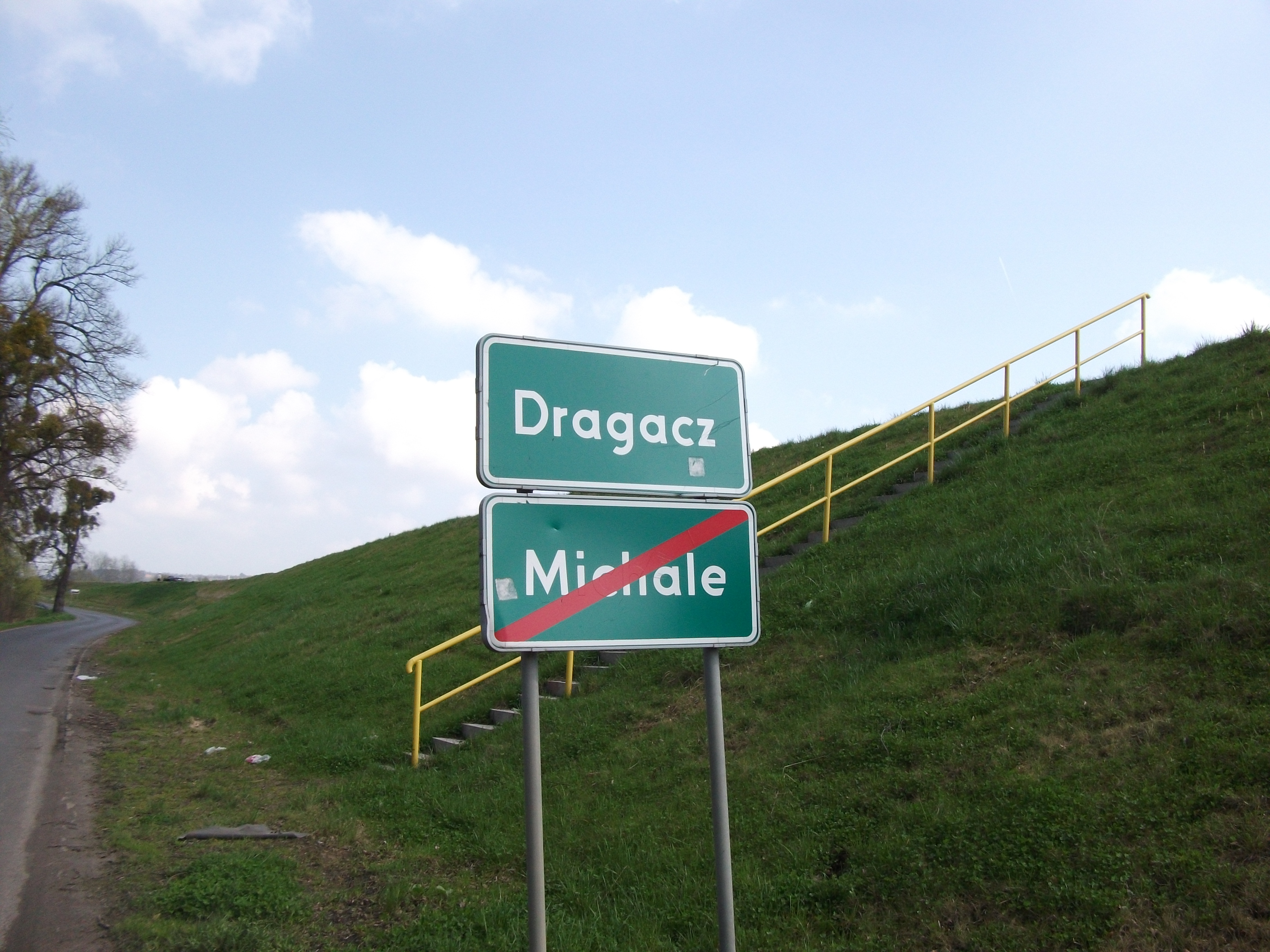 Dragacz village in Świecie County